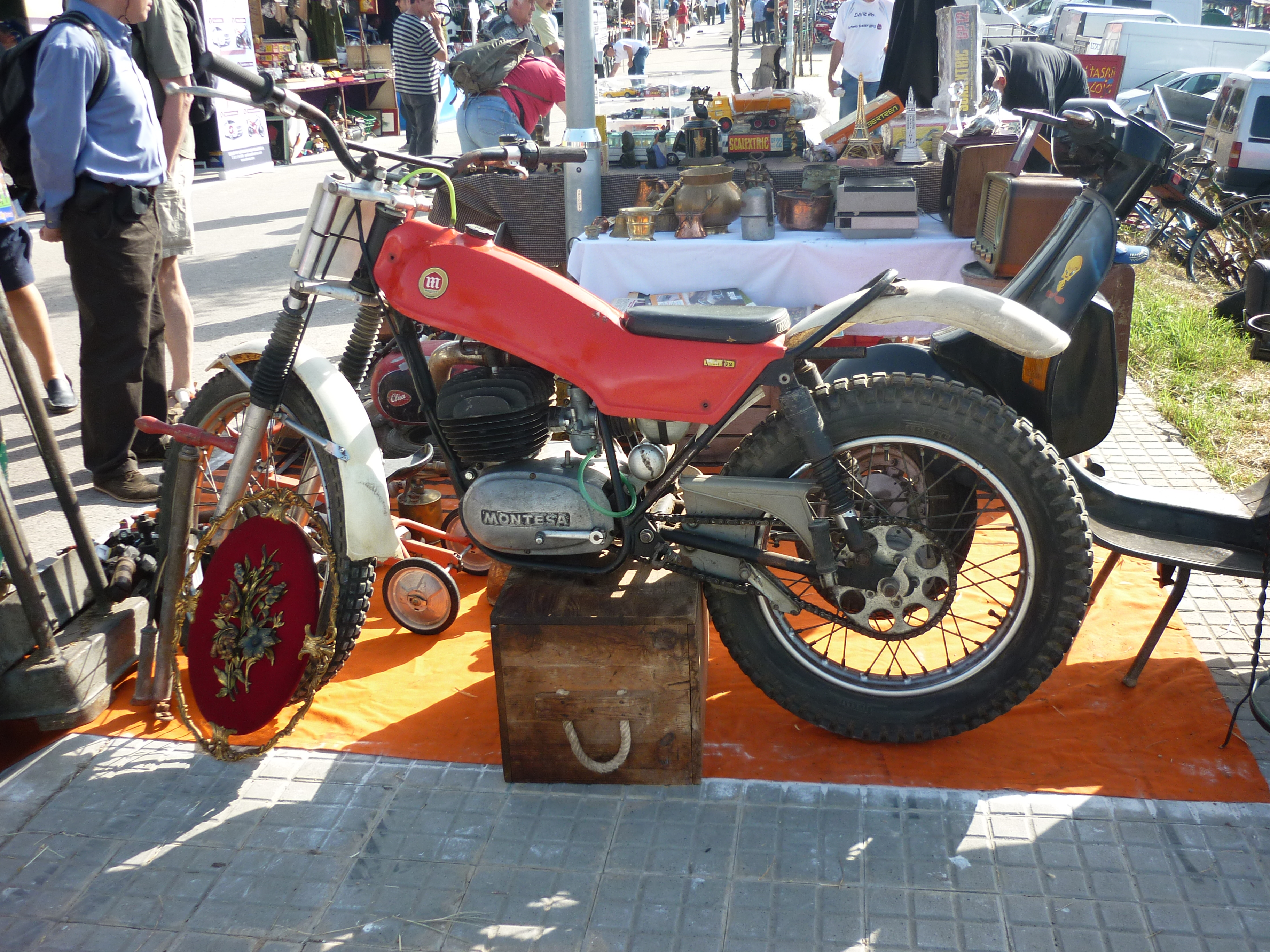 Montesa Cota 172, 1975. The fenders were originally in aluminium